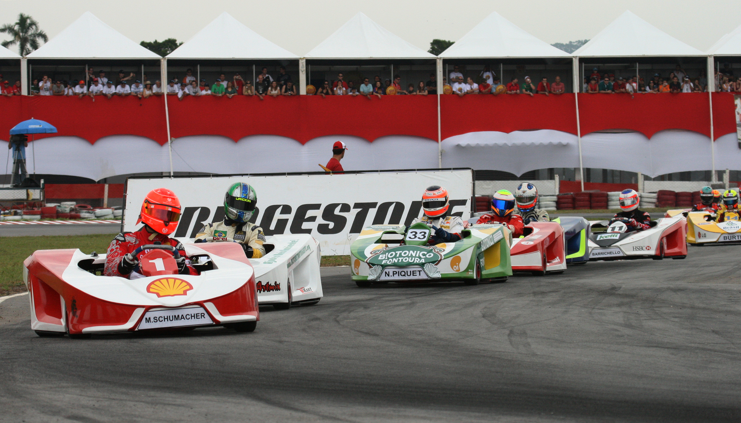 Desafio Internacional das Estrelas 2007 Race 1: (from left to right) Michael Schumacher (#1), Lucas Di Grassi, Nelson Piquet Jr. (#33), Felipe Massa, Felipe Giaffone, Rubens Barrichello (#11), and Luciano Burti (#14).